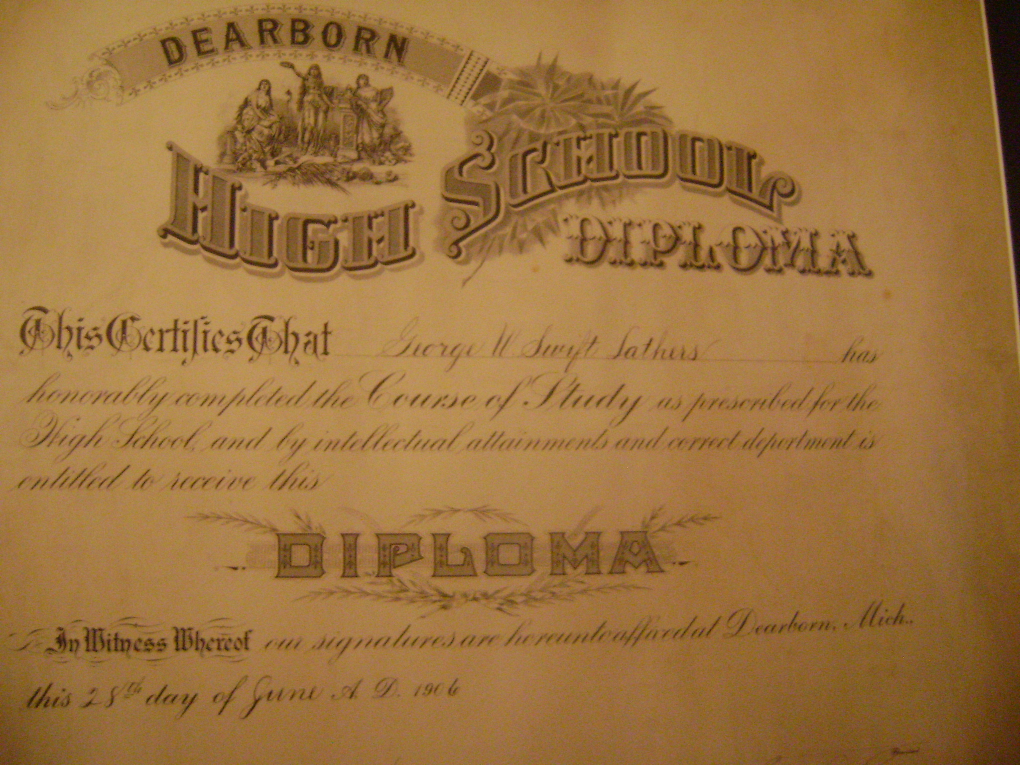 Lather's Dearborn High School diploma